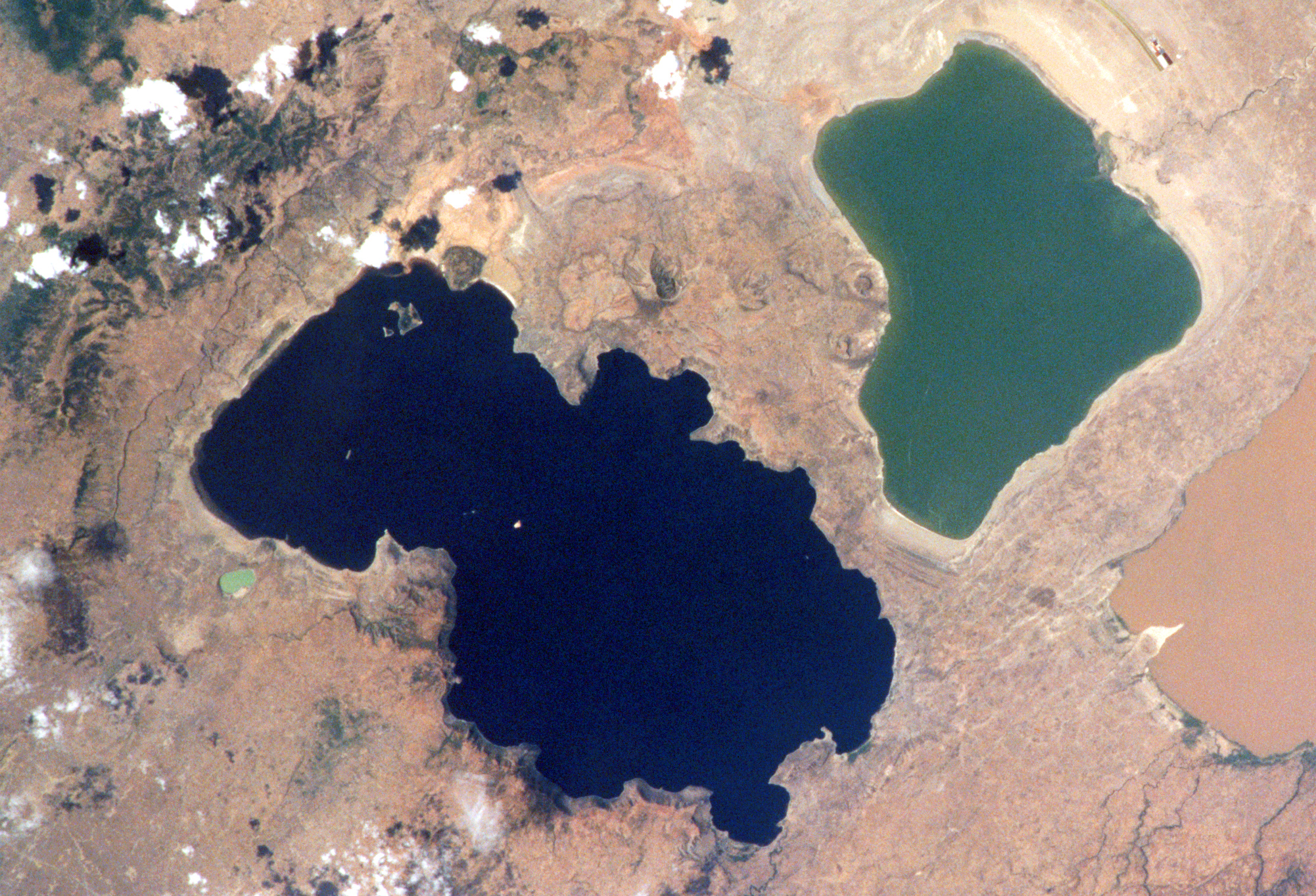 The eastern (right) side of dumbbell-shaped Lake O'a (Lake Shalla) forms the 17-km-wide O'a caldera. Greenish-colored Lake Kunni (Lake Abiata) at the upper right lies NE of the Pleistocene caldera. Post-caldera activity produced pyroclastic cones north of the caldera. The small greenish Chitu maar on the SW side of the lake was erupted in an area of Holocene vents along the Corbetti-Shalla fissure system extending north from Corbetti caldera. Fumarolic activity continues on the southern and eastern shores of the lake.